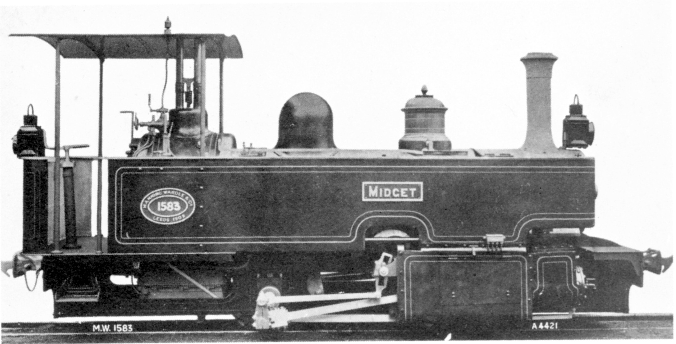 Cape Government Railways Type C 0-4-0T no. 20 of 1902